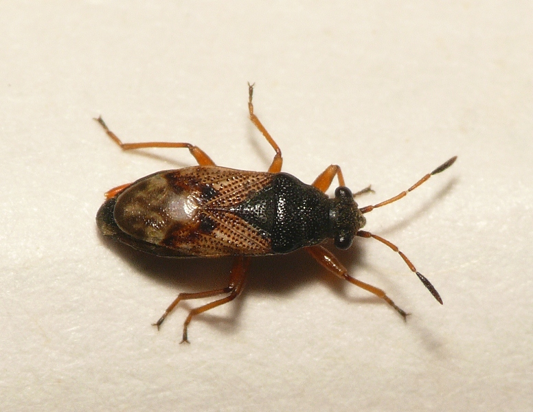 Acompus rufipes, location: The Netherlands - Rhenen - Blauwe Kamer